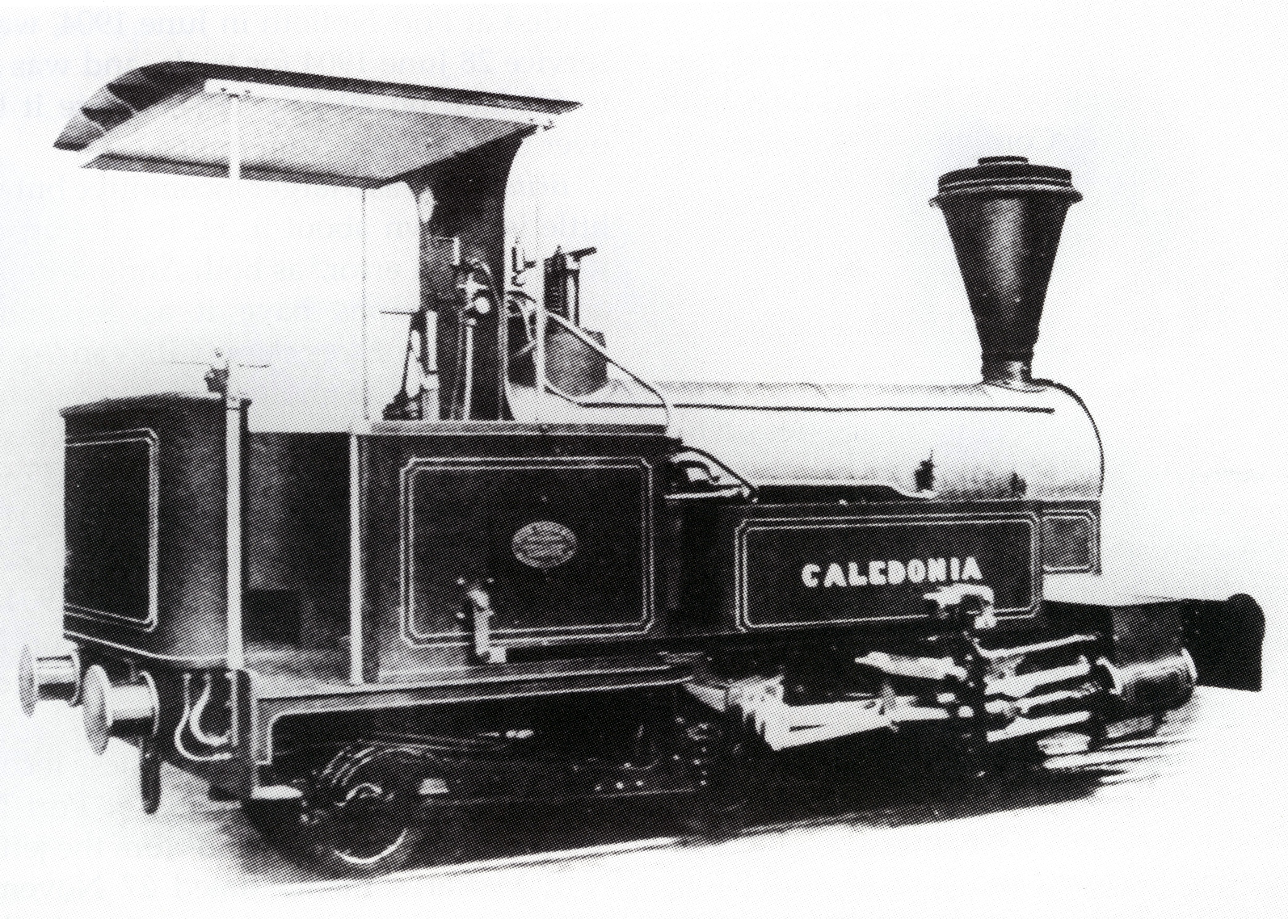 Cape Copper Company 0-4-2ST Caledonia in a Dick, Kerr works picture